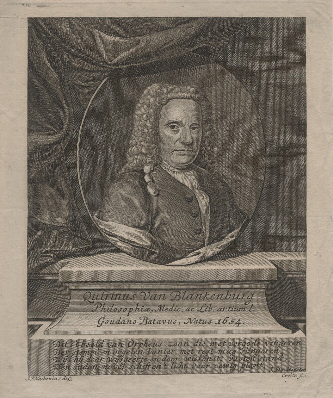 Dutch composer Quirinus van Blankenburg. Etch by Ernst Ludwig Creite, after Jacob Jan Nachenius